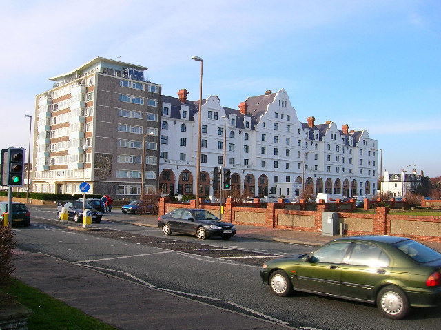 Dolphin Lodge, Worthing. At the junction of West Parade and Grand Avenue. This view looks west.